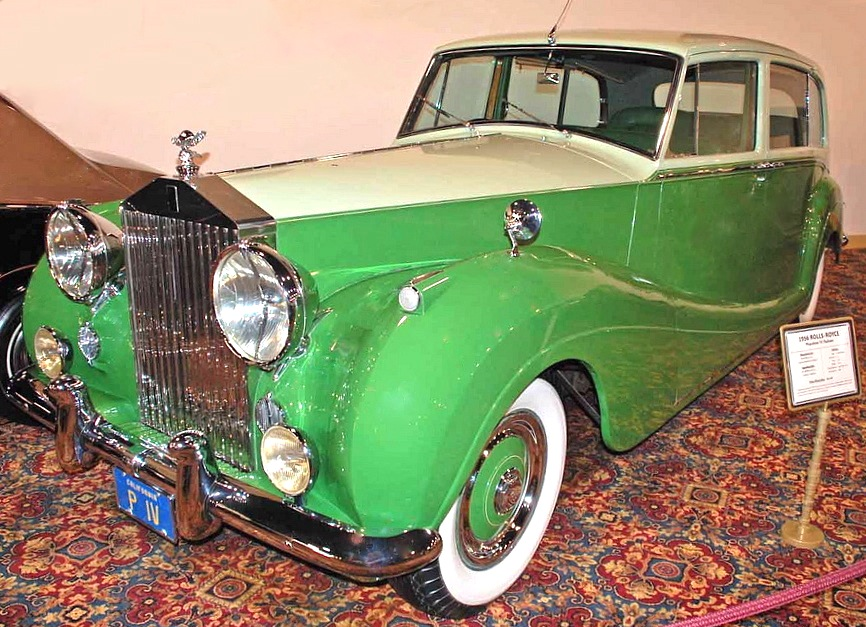 A Phantom IV, in the Nethercutt Museum, California, USA.